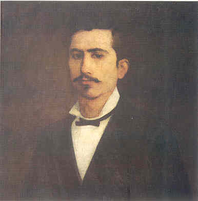 Portrait of Kostas Krystallis (1868-1894), Greek author end poet